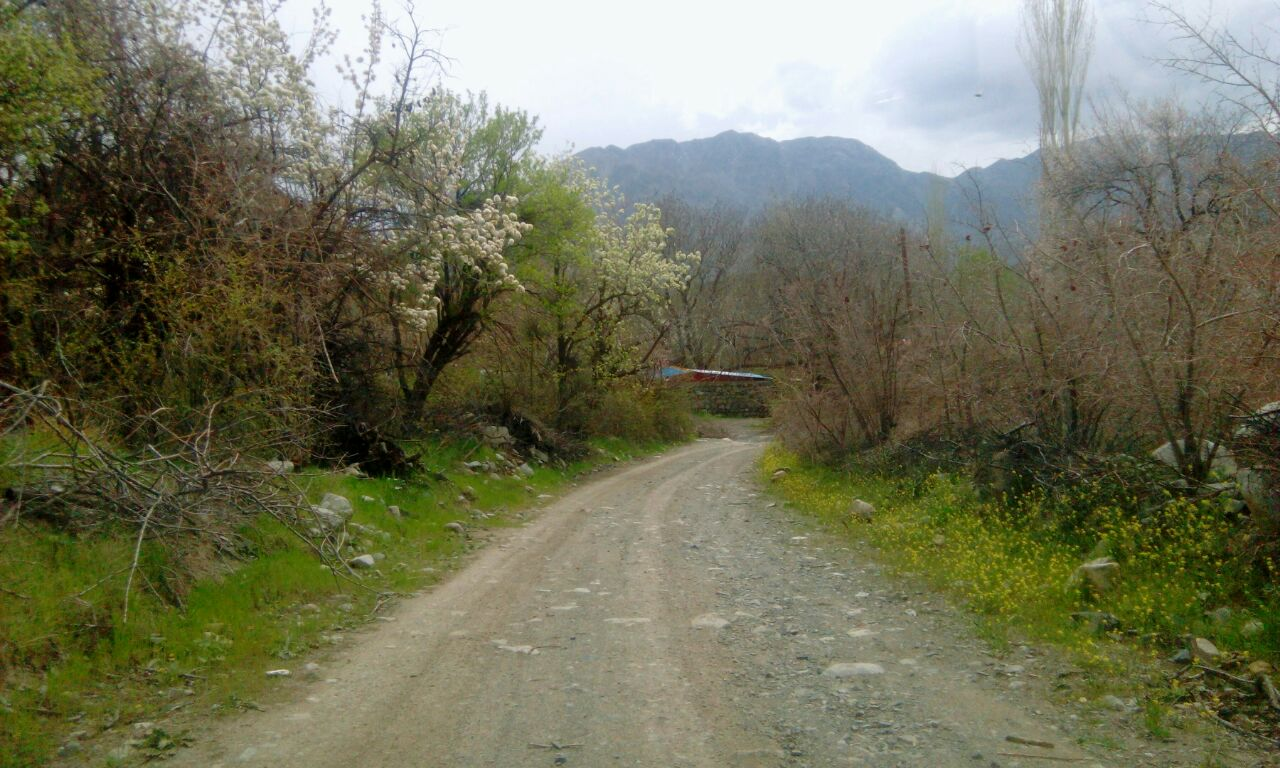 Dalfard